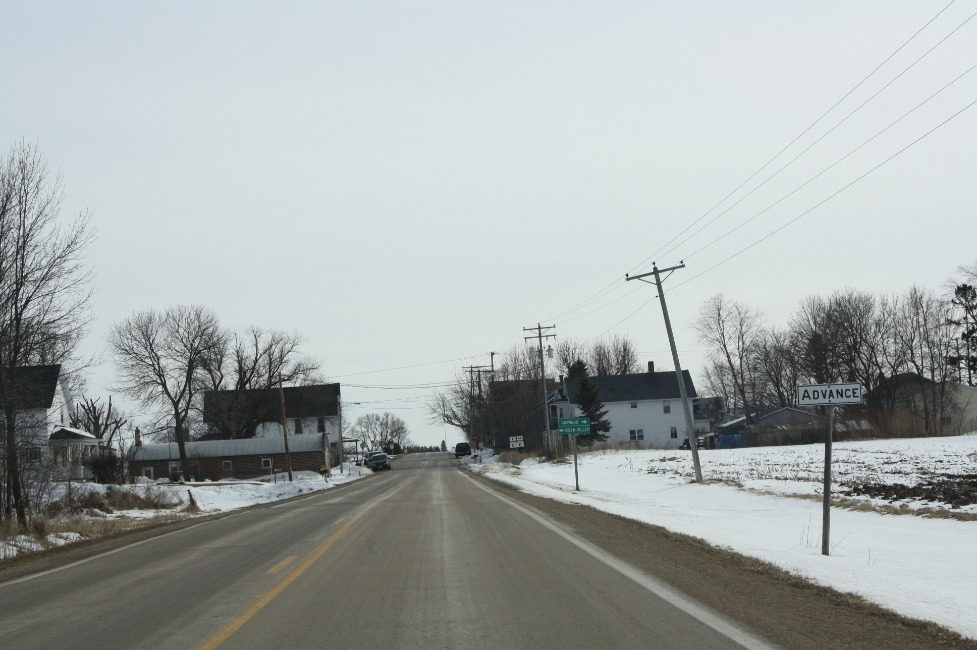 Looking south at the sign for Advance, Wisconsin.